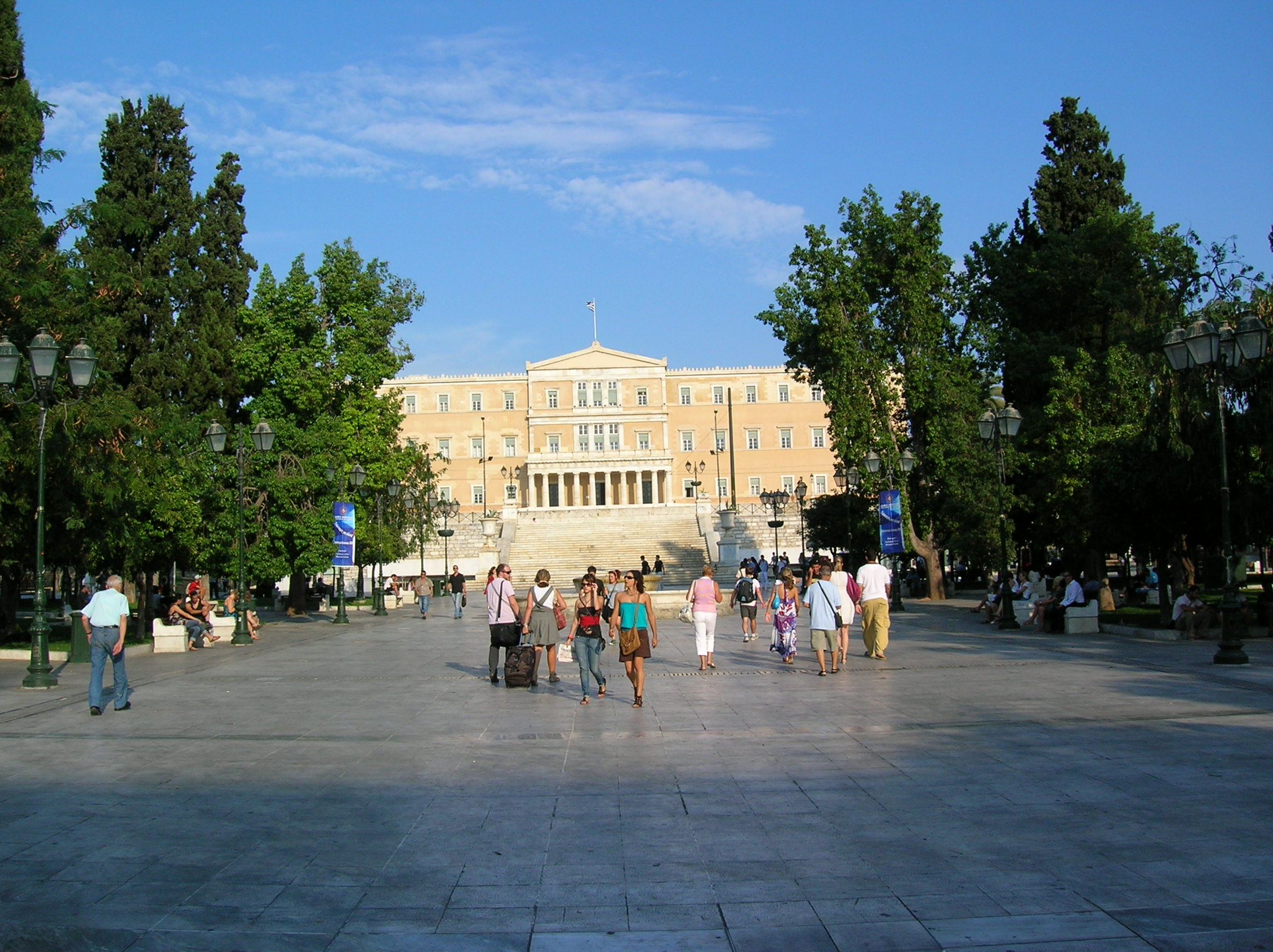 Syntagma with parliament building, Athens, Greece.